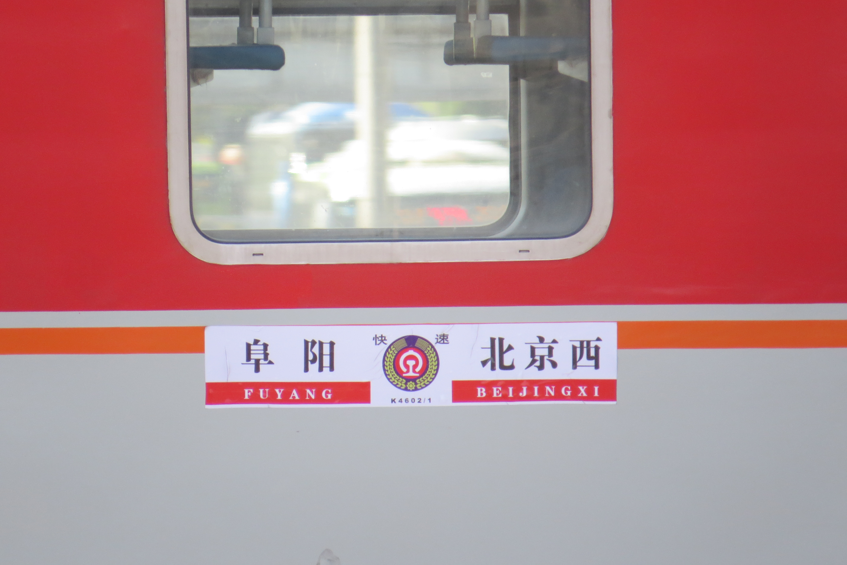 A temporary train to Fuyang (via Beijing-Kowloon Railway).